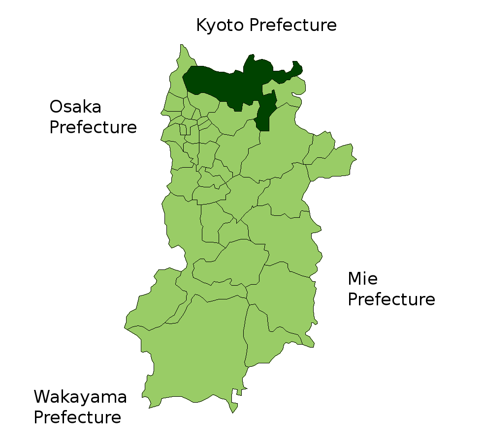 Location Map of Nara in Nara Prefecture, Japan